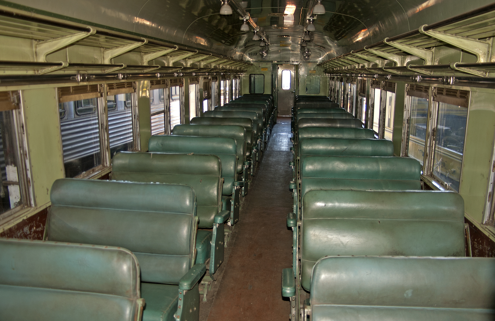 Interior of (5003) U set motor car at the Junee Roundhouse Museum.